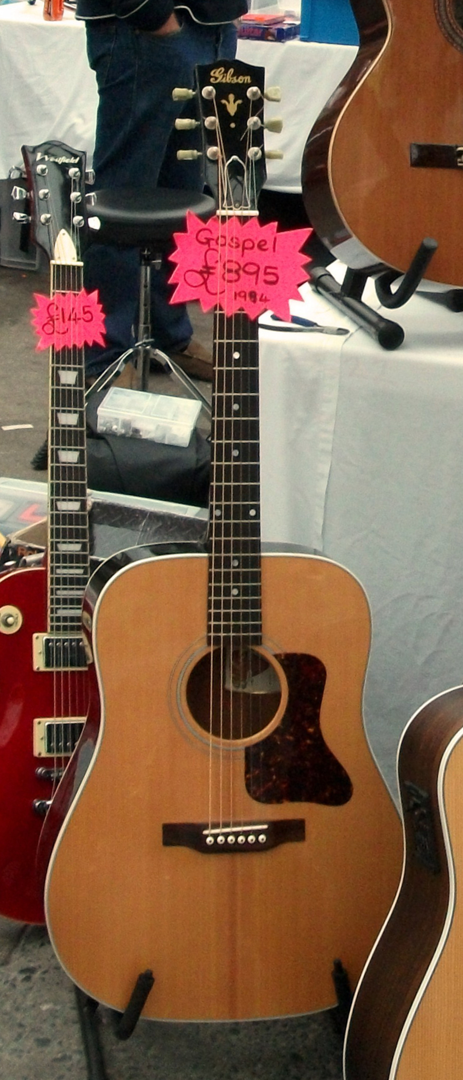 Gibson Gospel (1994) These are on sale at Tynemouth railway station Sunday market. As has been pointed out, they are Gibsons so cost a little more than the average.